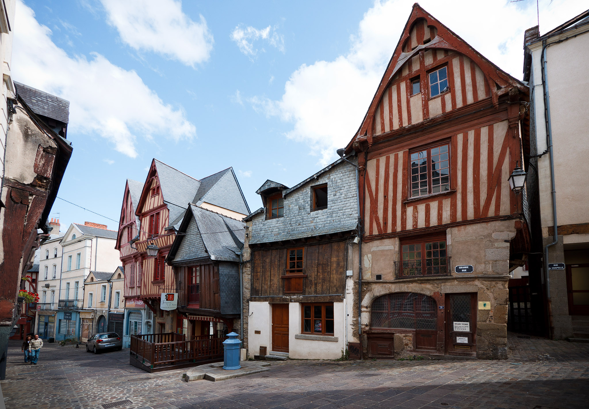 Laval. France / Summer road trip 2010.